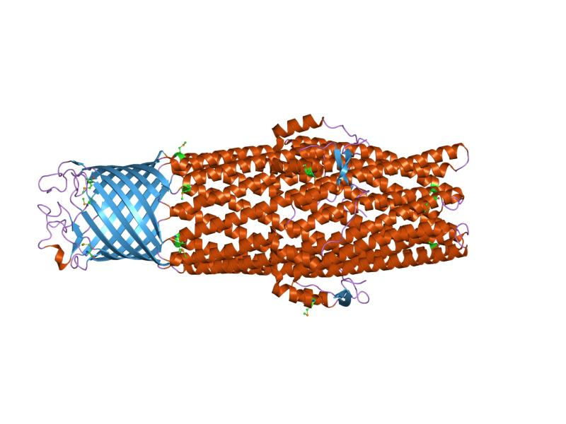 Cartoon representation of the molecular structure of protein registered with 1ek9 code.